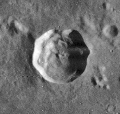 Mosting lunar crater - LOIV-109H1 image